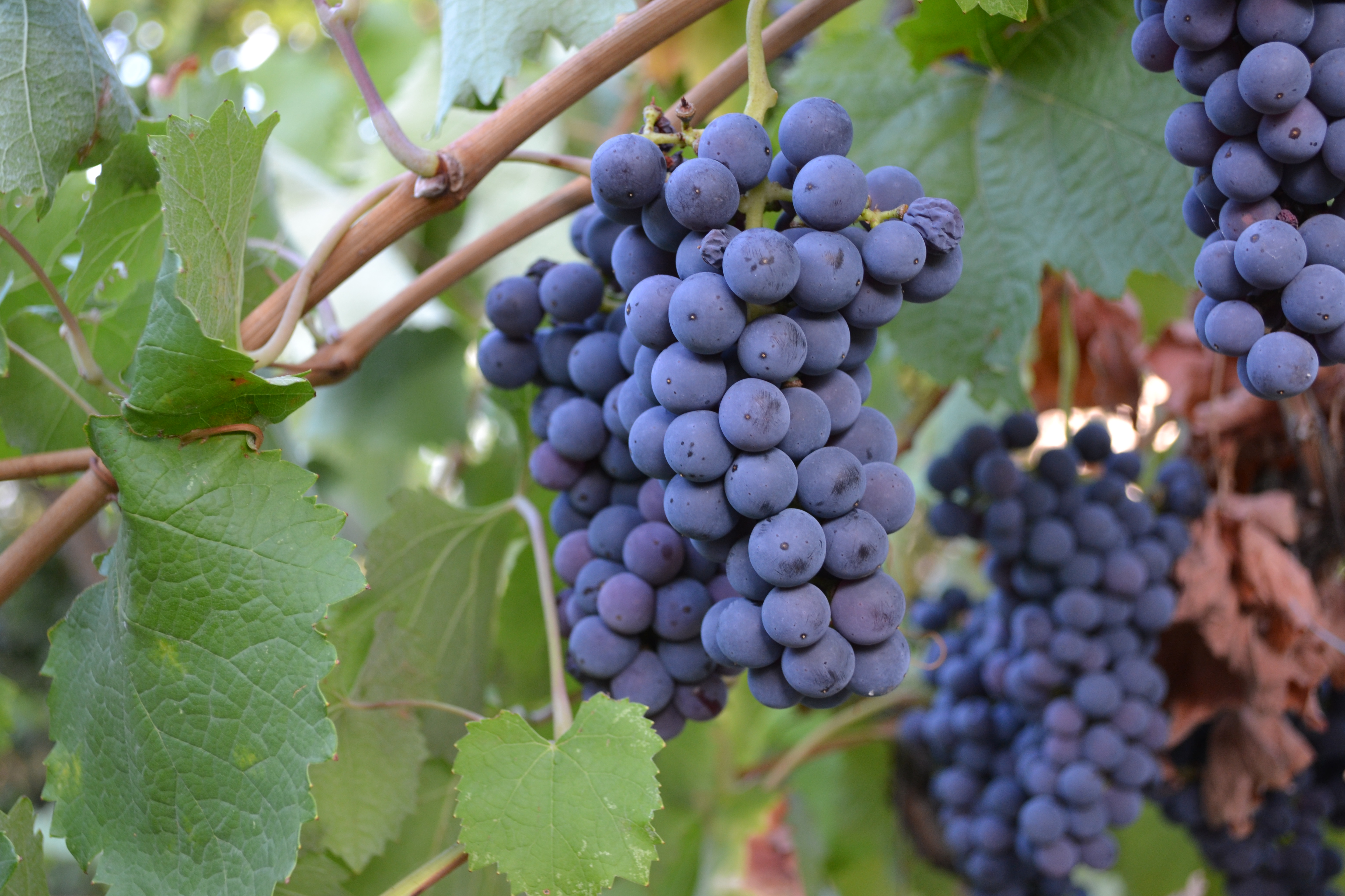 Black grape, in Radolista, Struga.